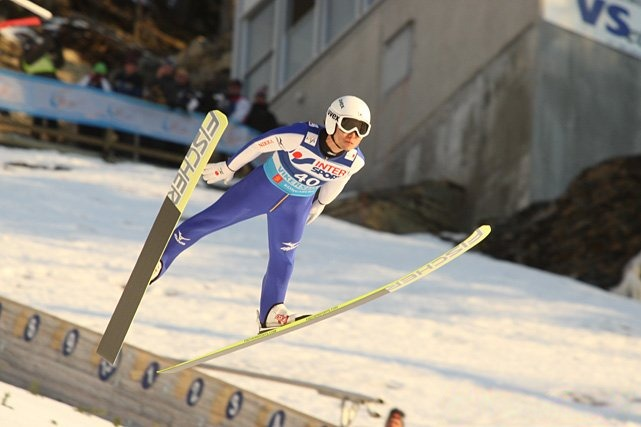 Daiki Ito in the FIS Ski-Flying World Championships 2012